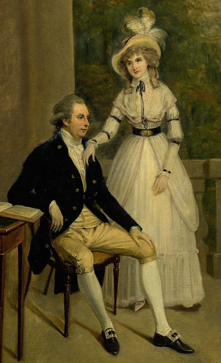 John Petrie and wife in India, some time after 1785